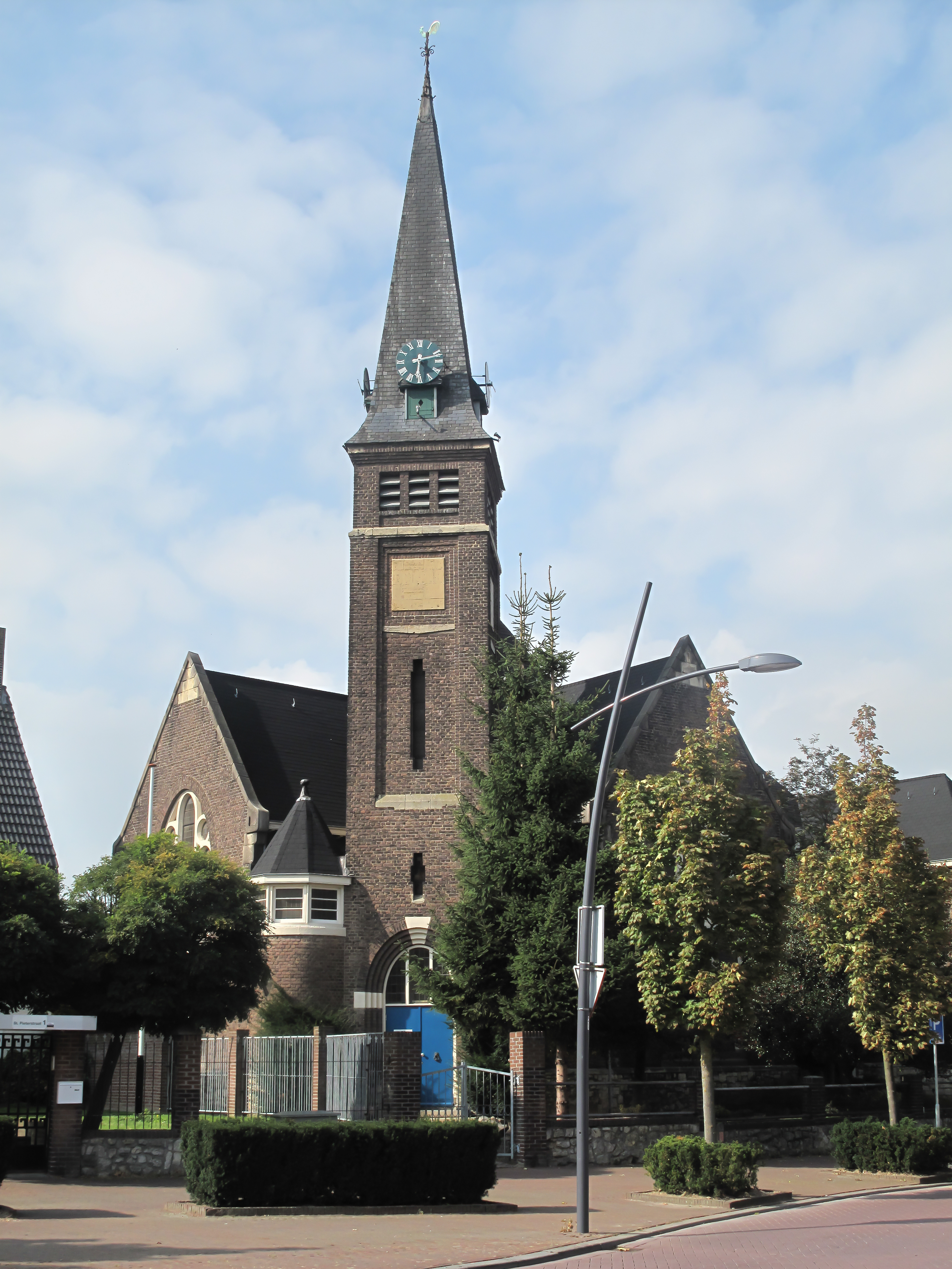 Chevremont, church